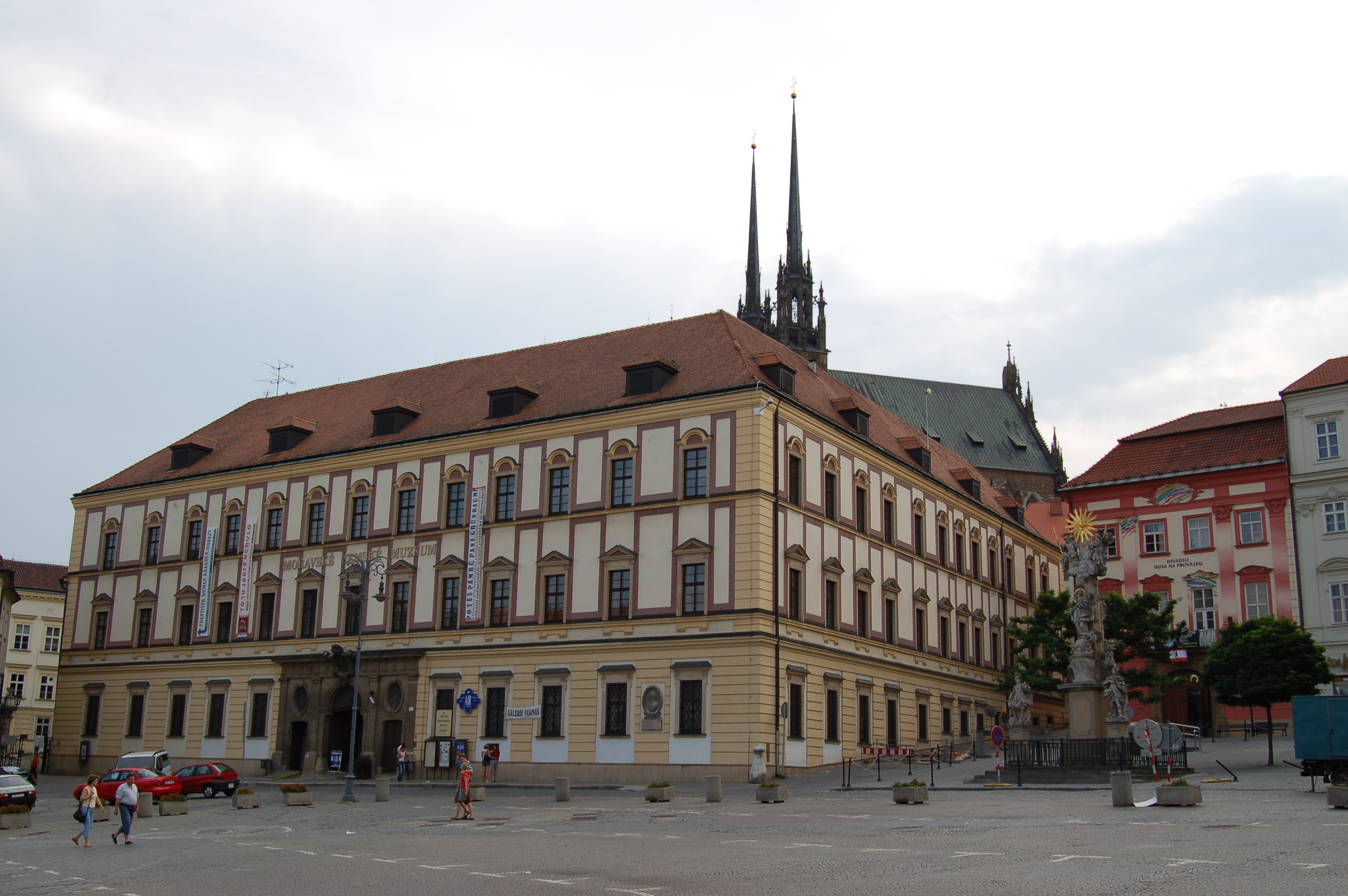 Buildings in the center of the Czech city Brno.